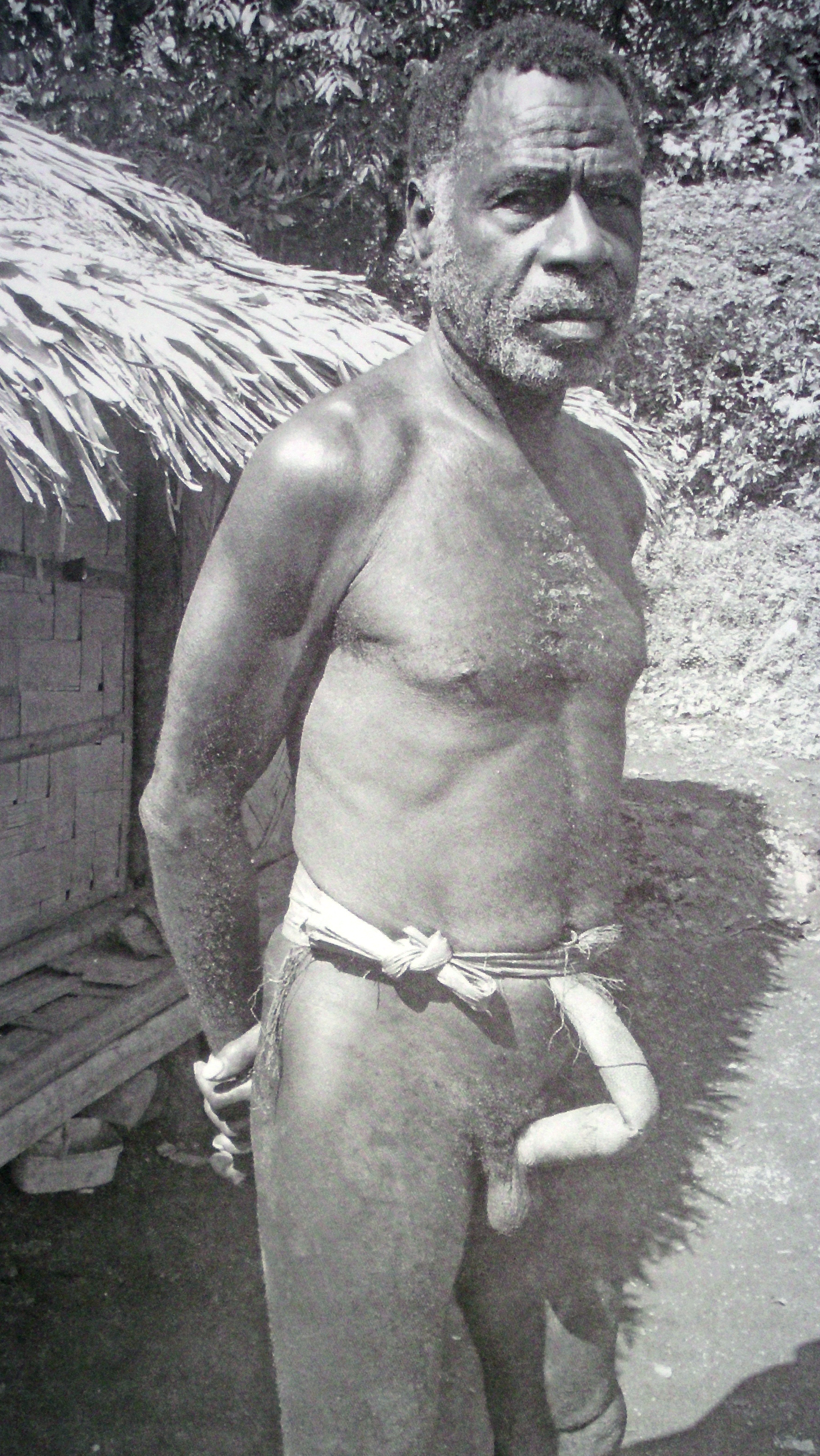 Pentecost island, Vanuatu, photo from book